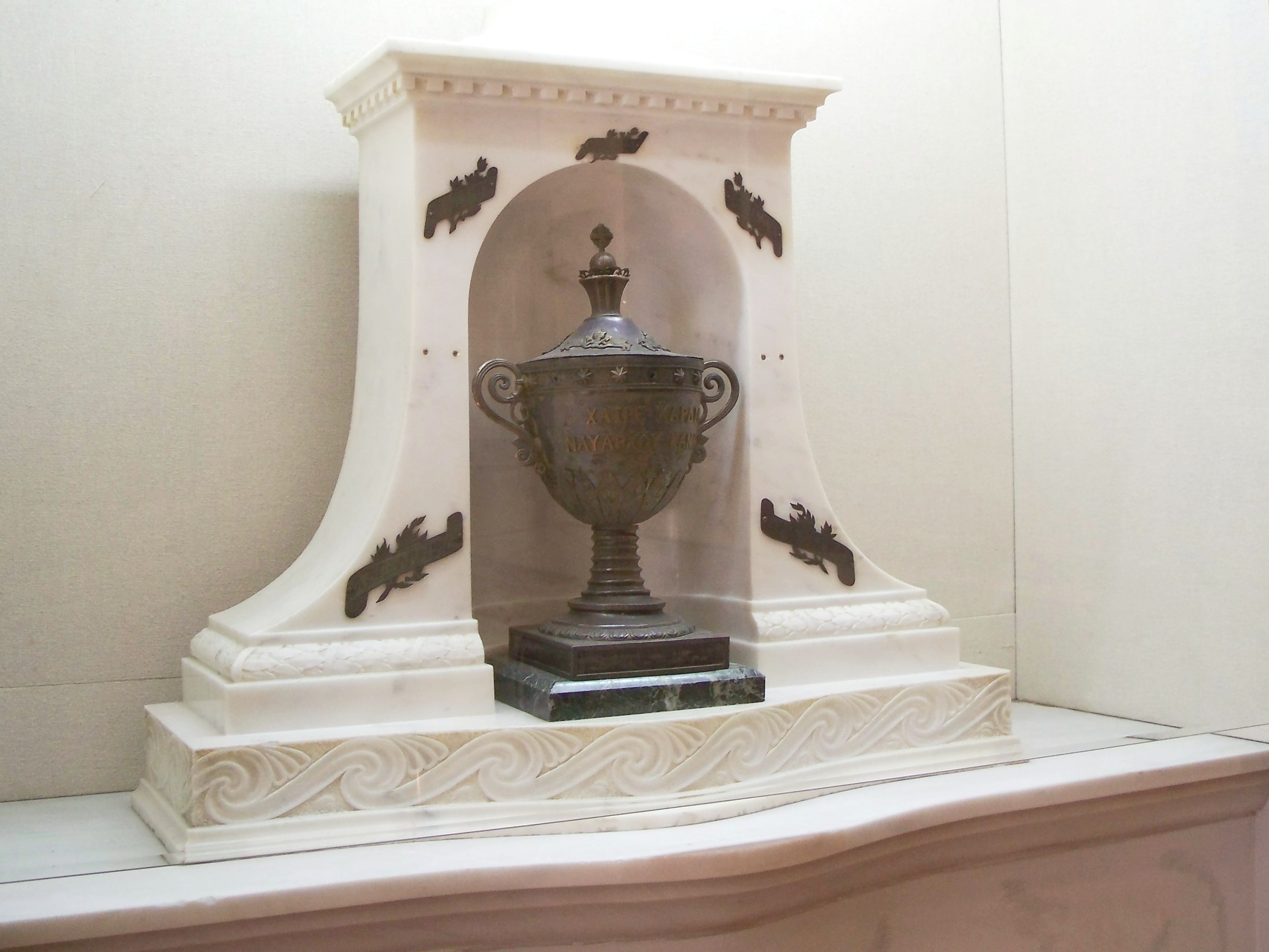 The silver container with the heart of greek revolutionary and Prime Minister Konstantinos Kanaris (Κωνσταντίνος Κανάρης). National Historical Museum, Athens, Greece.